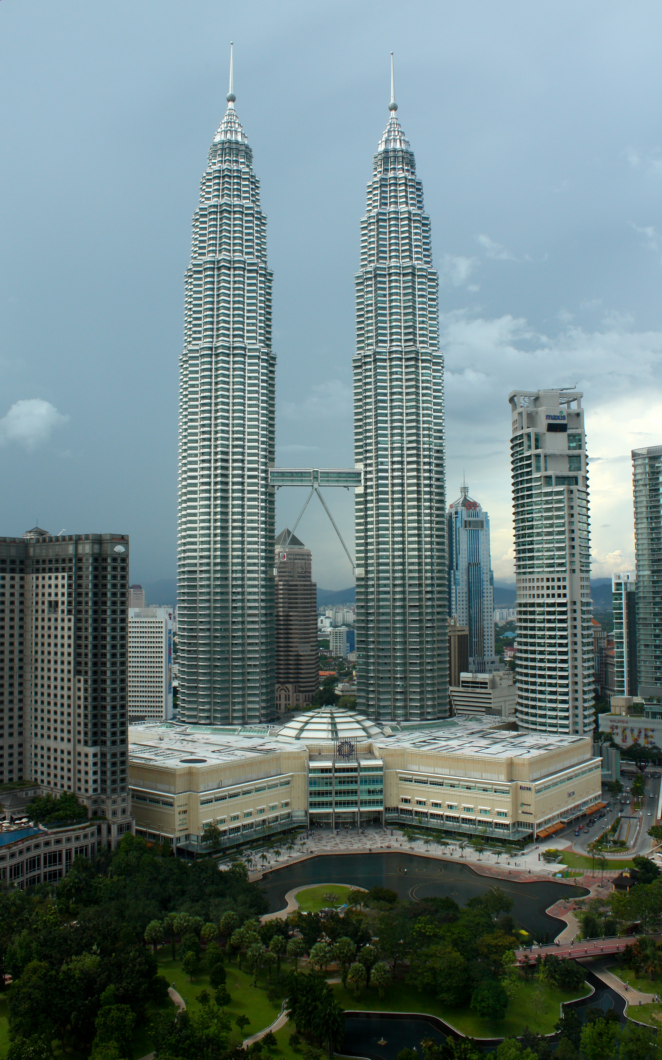 Taken from 29th floor of Traders hotel